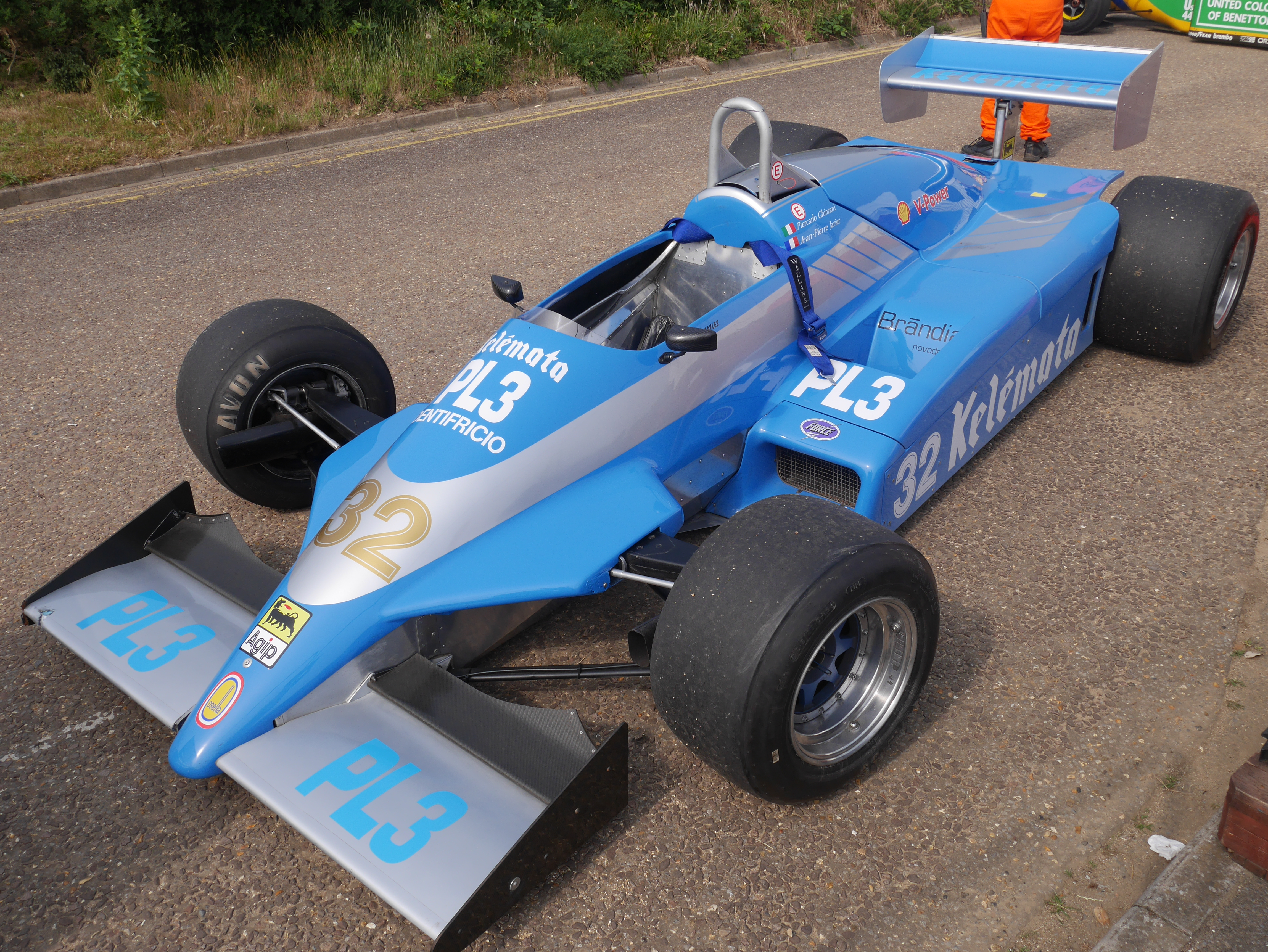 An Osella FA1D Formula One car from 1983 at the 2016 Bournemouth WHEELS festival.